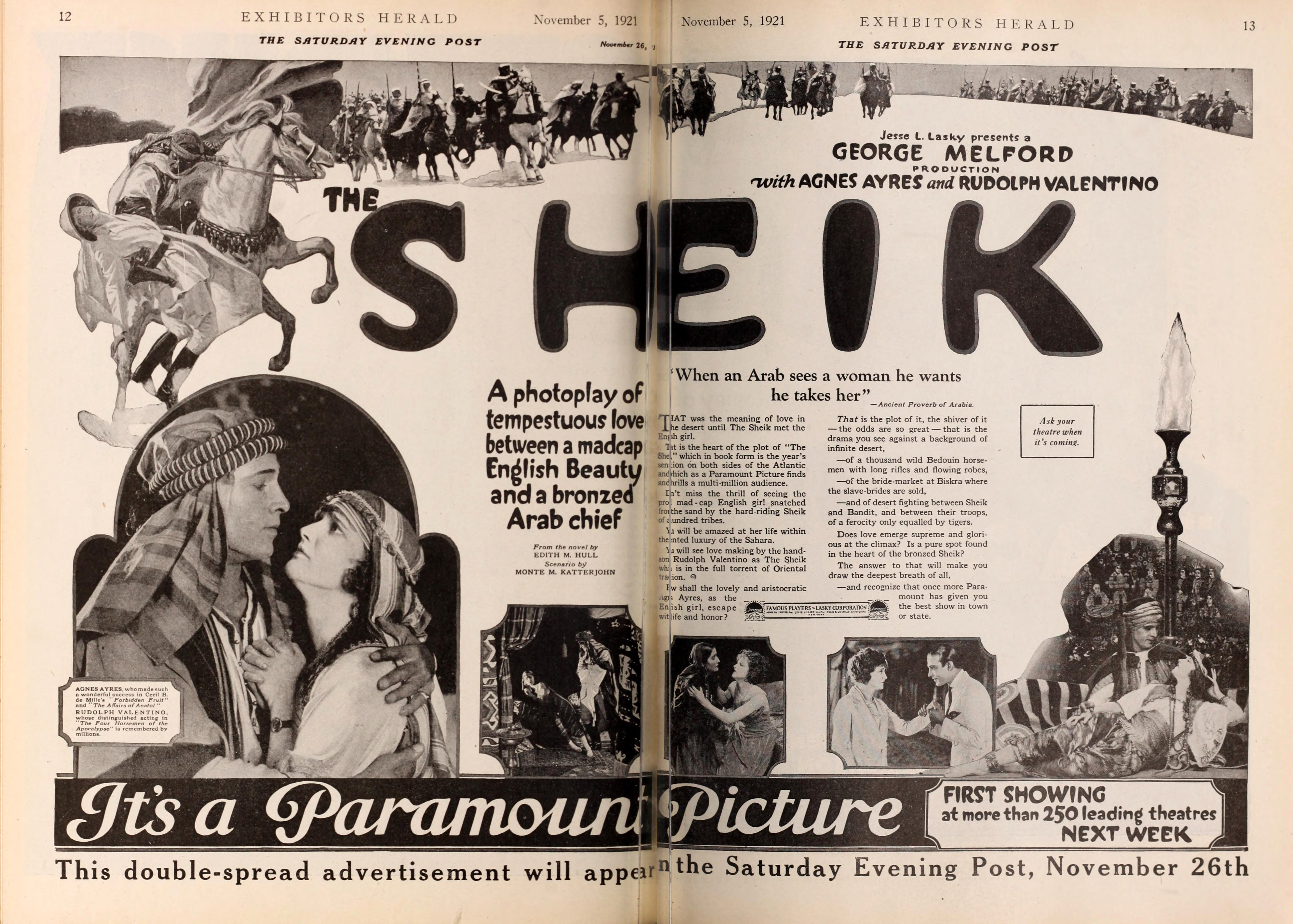 Advertisement in Exhibitor's Herald for the American romantic drama film The Sheik (1921) with Rudolph Valentino and Agnes Ayres.